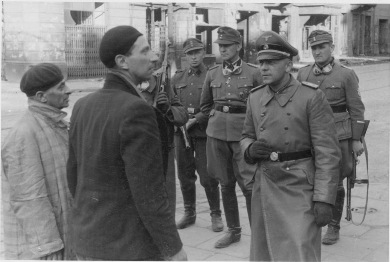 Warsaw Ghetto Uprising- An officer, possibly Maximilian von Herff, questions two Jewish resistance fighters as Stroop (rear, center) observes. Photograph might have been taken during Herff's trip May 14-15, 1943 [3]